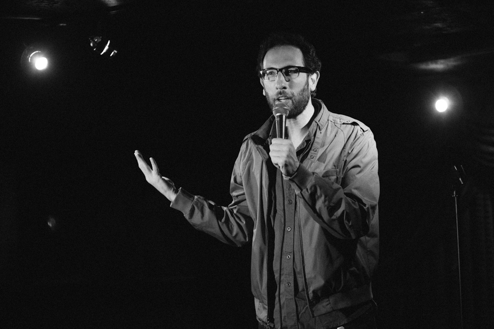 Comedian Ari Shaffir performing at the Del Monte Speakeasy at Townhouse, Venice, Los Angeles, California on 7 May 2013.